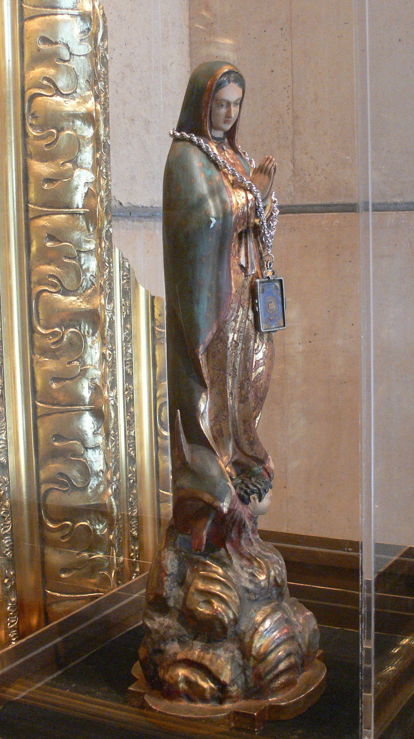 Roman Catholic Cathedral of Our Lady of the Angels, Los Angeles, California Statue of Our Lady of Guadalupe